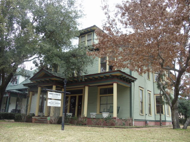 Jacos and Eliza Spake House